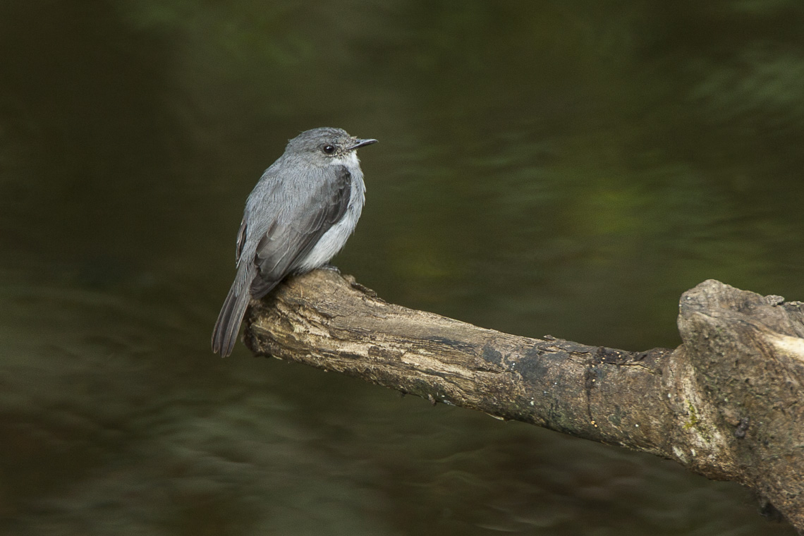 Cassin's Flycatcher - Kibale Uganda 06_4072